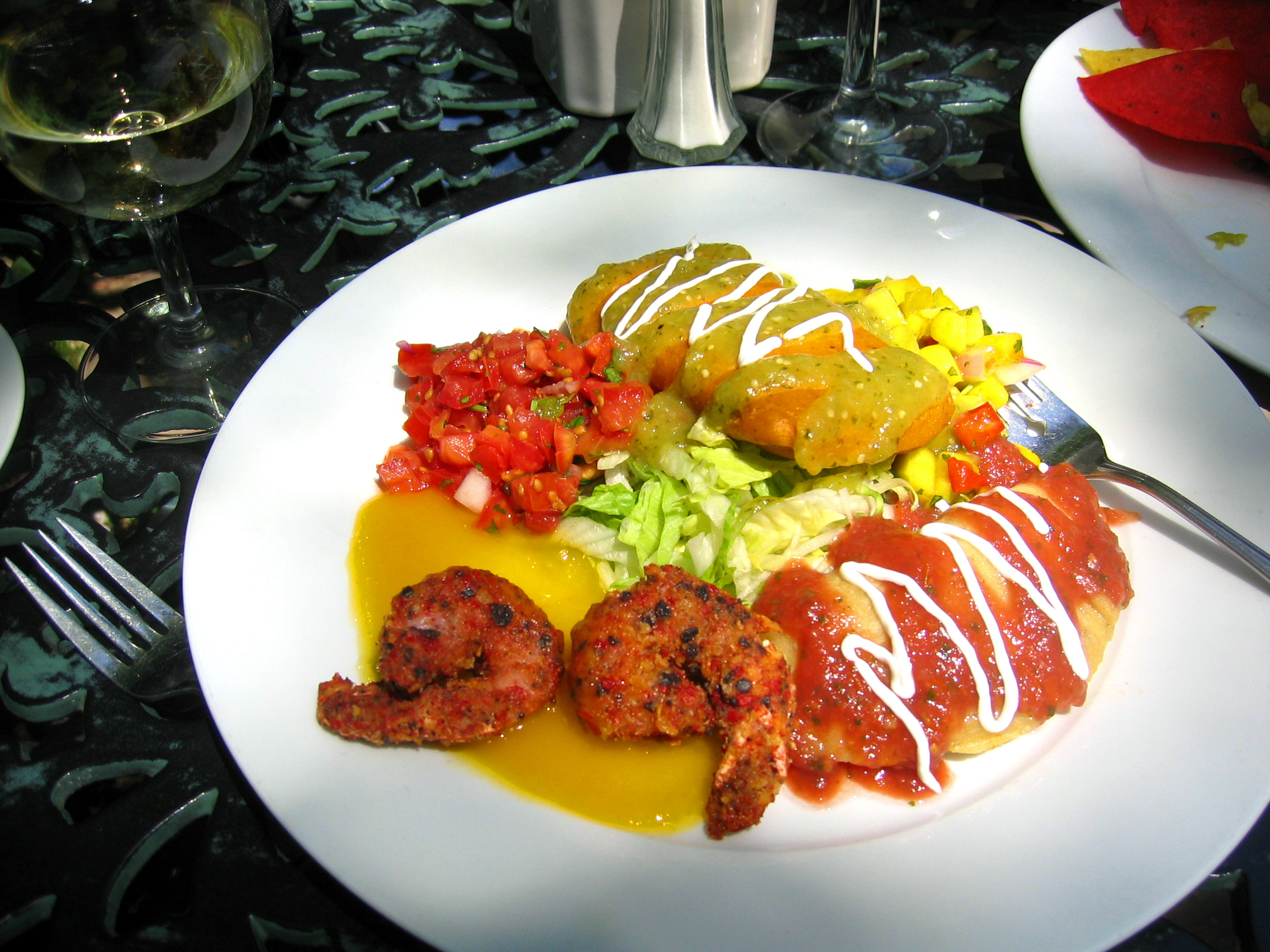 Entrée: Coconut crusted shrimp, chicken relleno, portabello mushroom and cheese stuffed something, with red picante salsa and peach salsa.